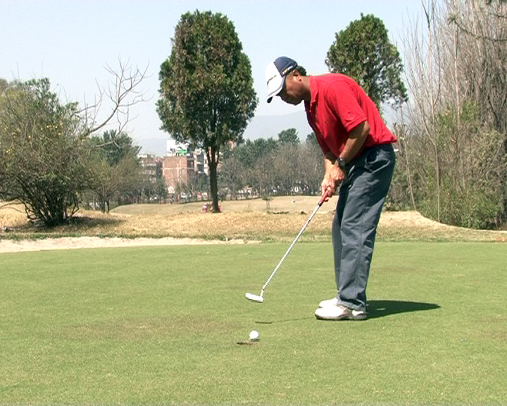 Dipak thapa magar nepali golfer